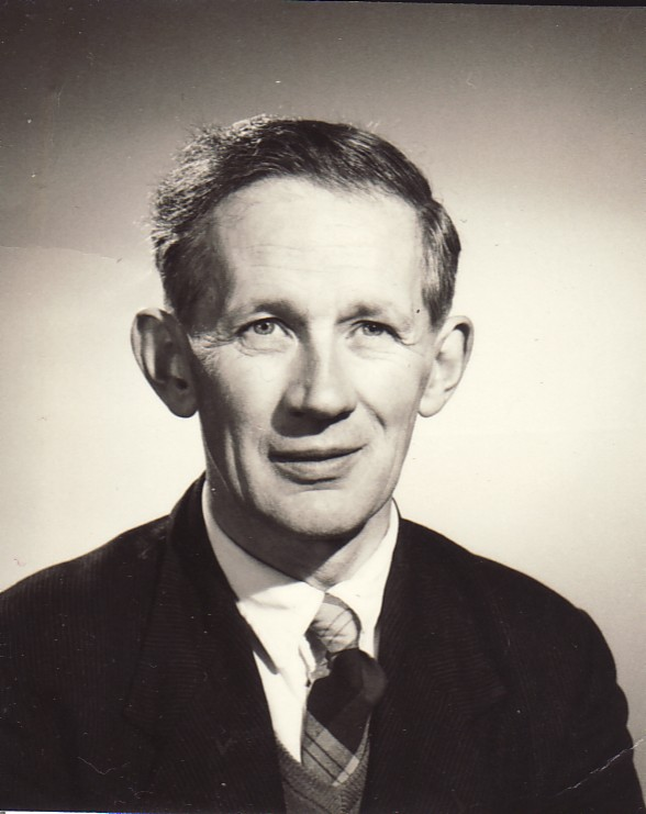 Neil Leslie Webster. Portrait taken circa 1940.